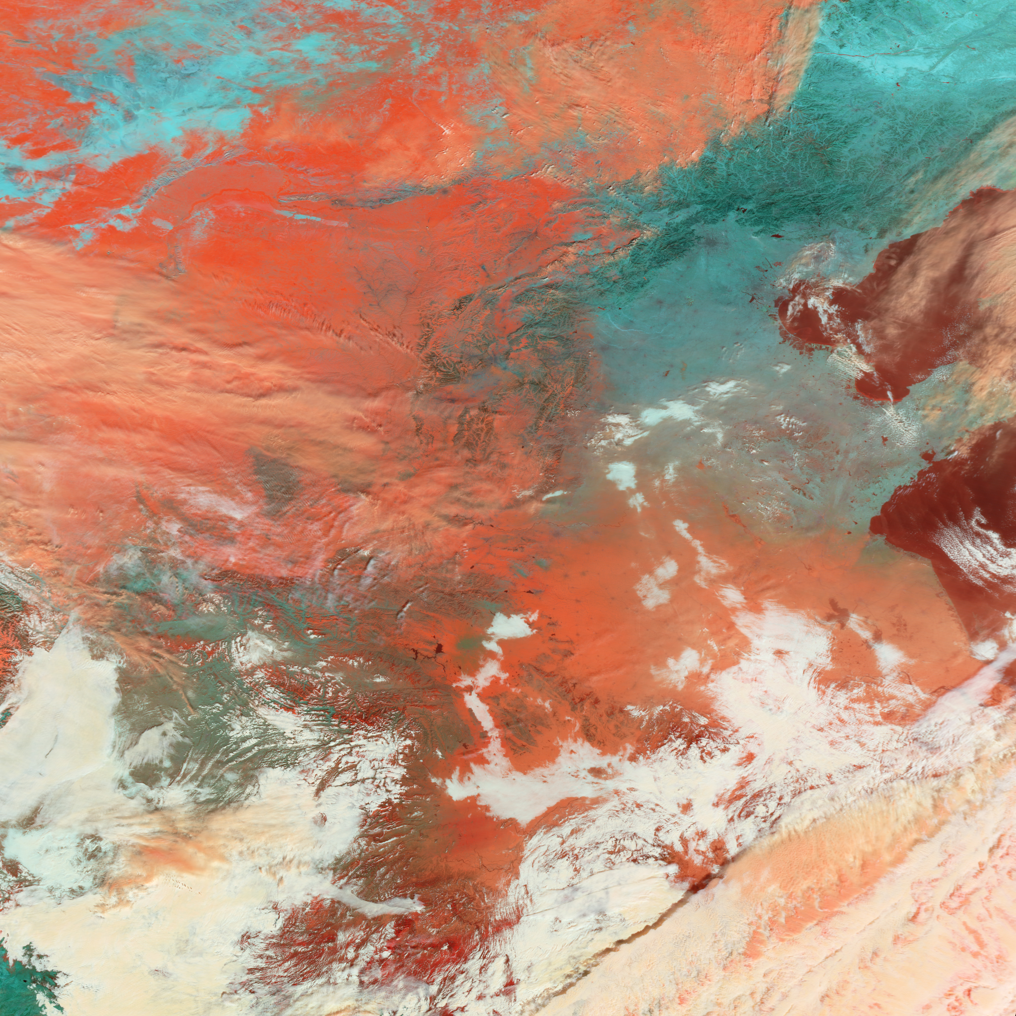 Heavy Snow in China